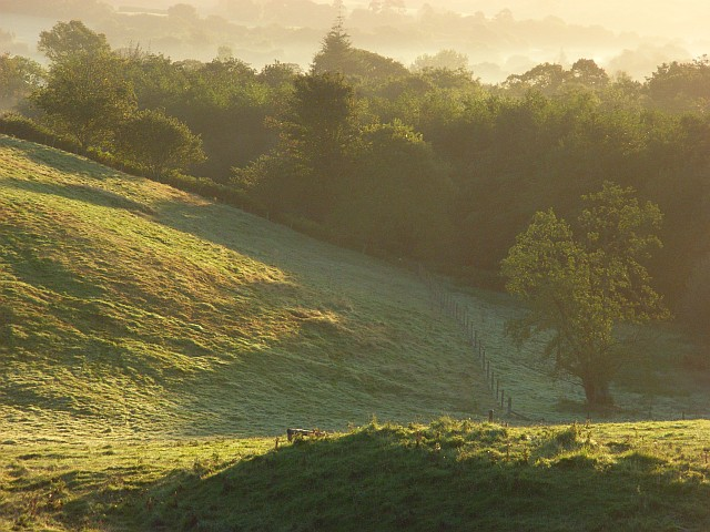 Woodland in Aunt Mary's Bottom In one of numerous little valleys in this part of Dorset.